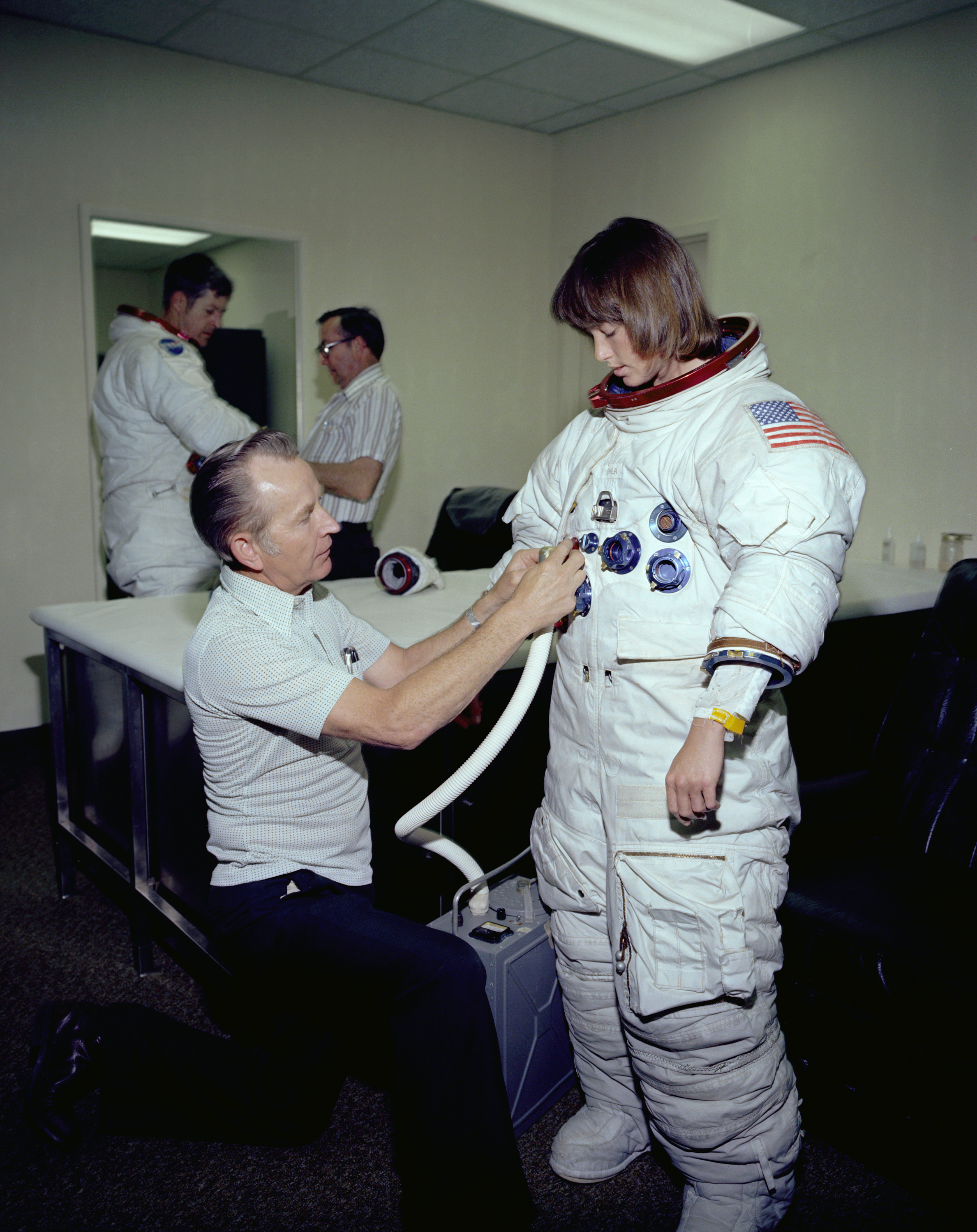 Astronaut Anna Fisher suits up with Dr. Joe Kerwin for neutral buoyancy training on a mock-up of the Hubble Space Telescope to test switching out scientific equipment modules. Fisher is using Pete Conrad's training suit as it was the only space suit small enough to fit her.